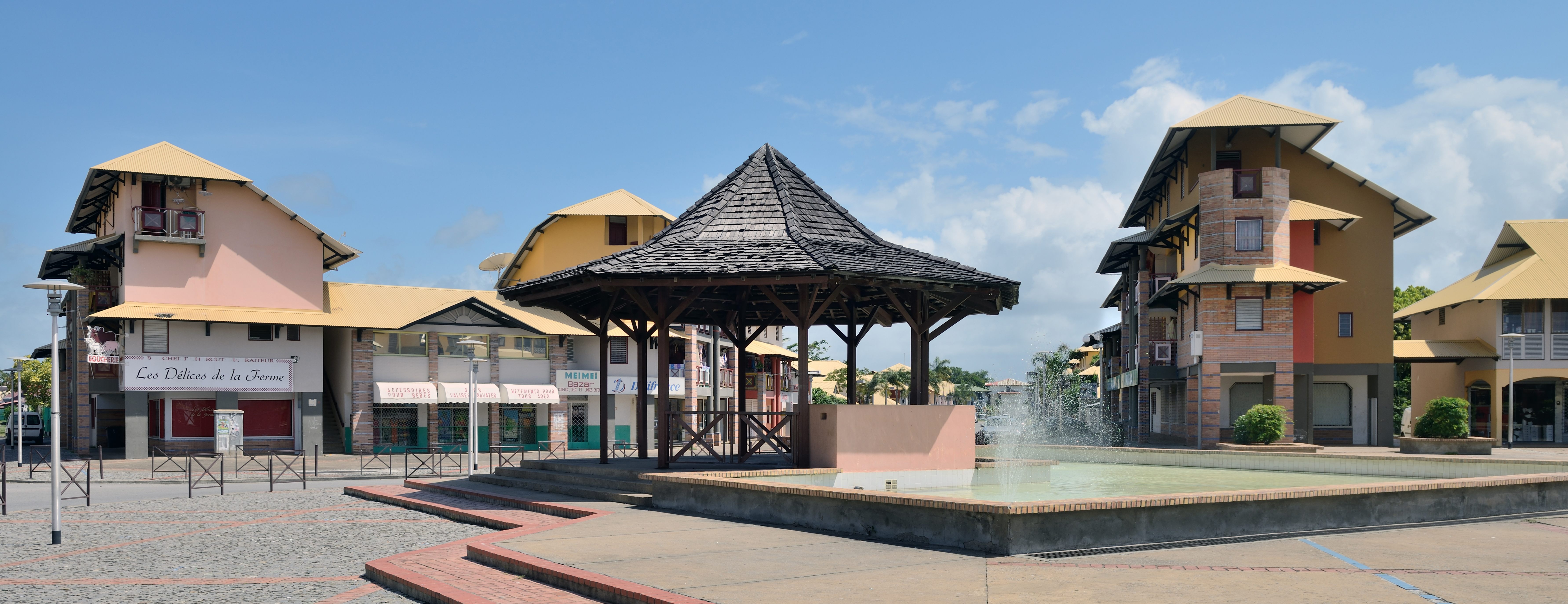 City centre of Kourou, French Guiana.